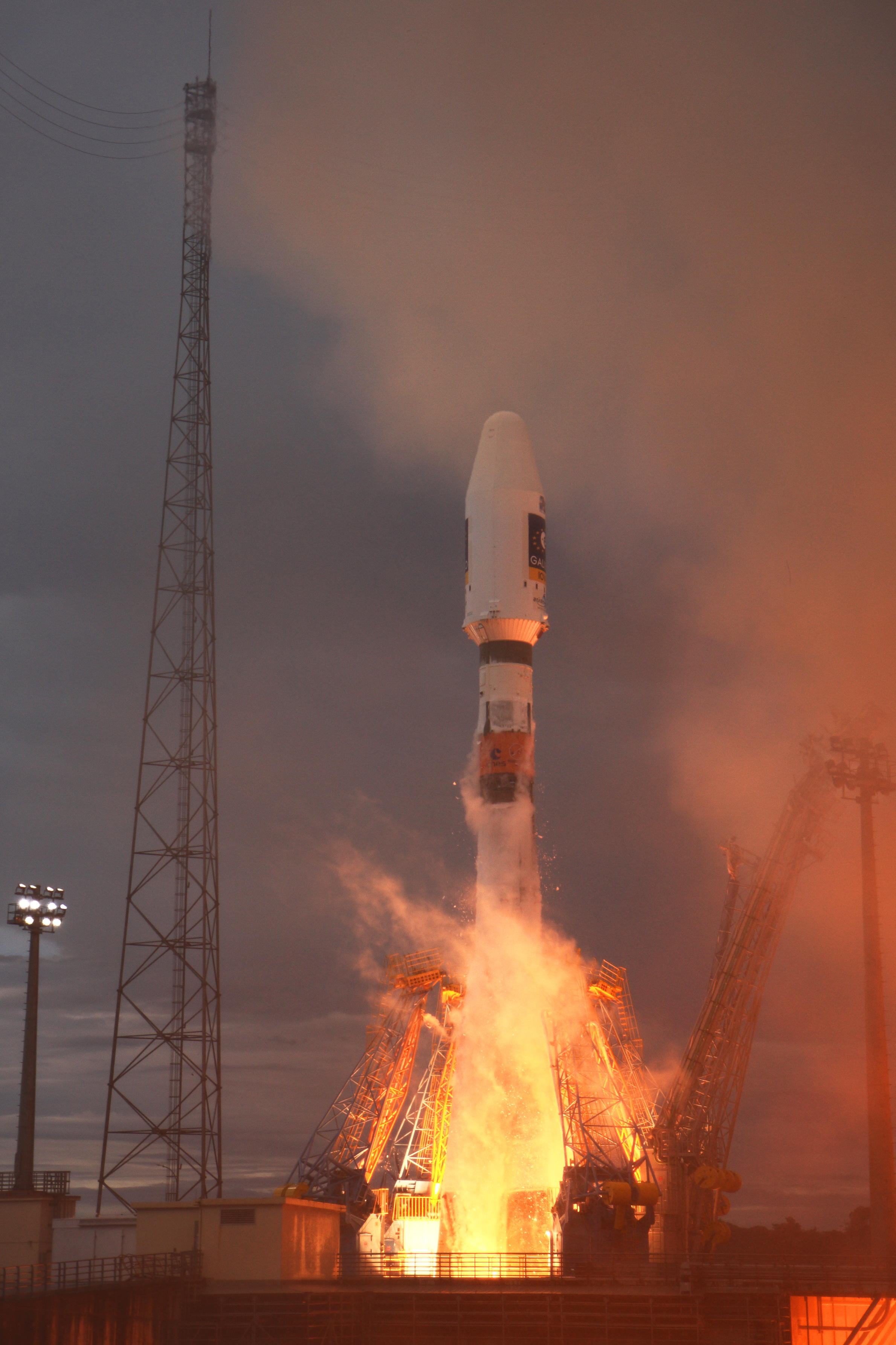 Galileo launch on Soyuz VS01 on 21 October 2011, from ELS launch complex in Guiana Space Centre. Four launch support arms holding the rocket are being released, with sublimating ice from the rocket blown away by the wind. One of four tall lightning safety towers is visible in a background on a left, and a shorter light masts are visible on a very left and right. Exhaust fumes deflected by the flame trench are in a top-right part of the frame, backlit brown and orange.